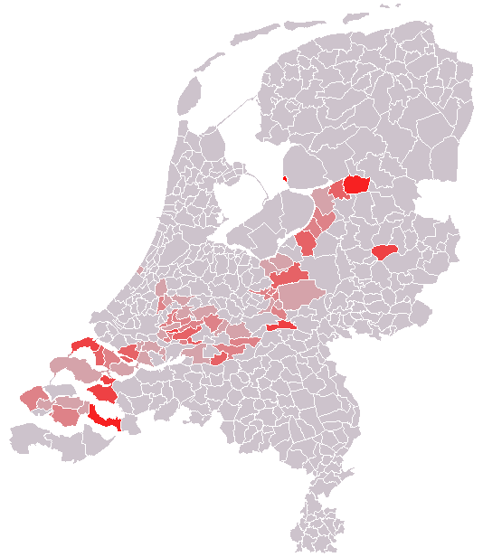 SGP voters per municipality in the Netherlands, 2003 parliament elections. This gives an indication of the extent of the Dutch "Bible Belt". Grey = 0% to 4.9%, increasing levels of red for every 5%, up to 30% to 34.9% (on Urk).